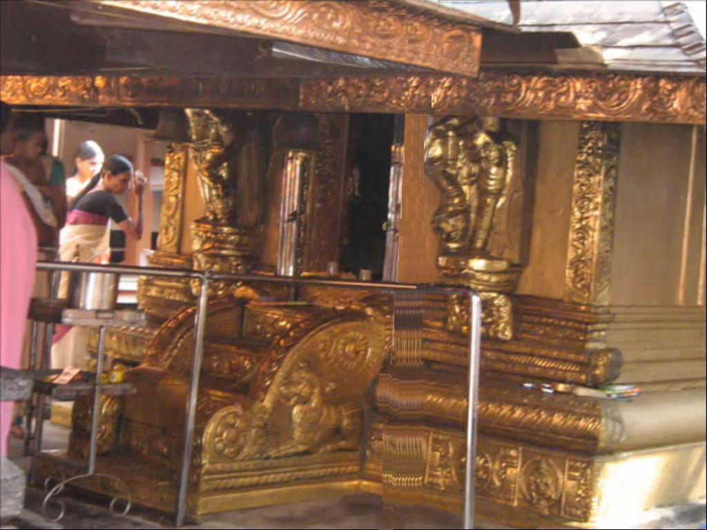 Kanjiramattom Mahadeva Srikovil